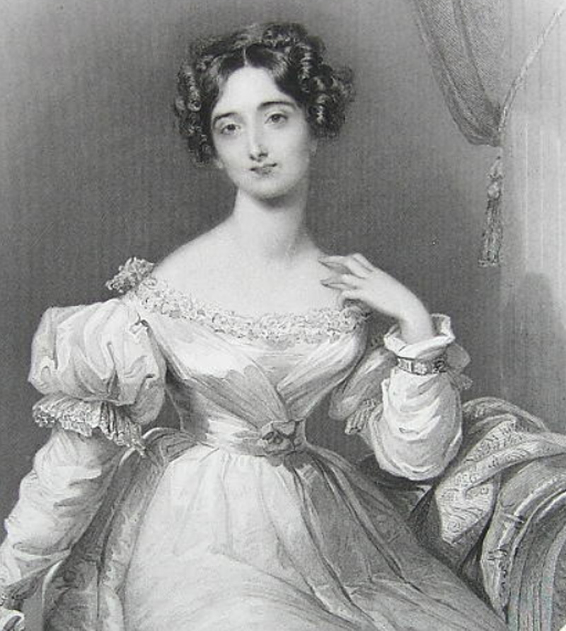 Sarah Albinia Robinson, Countess of Ripon, 1849